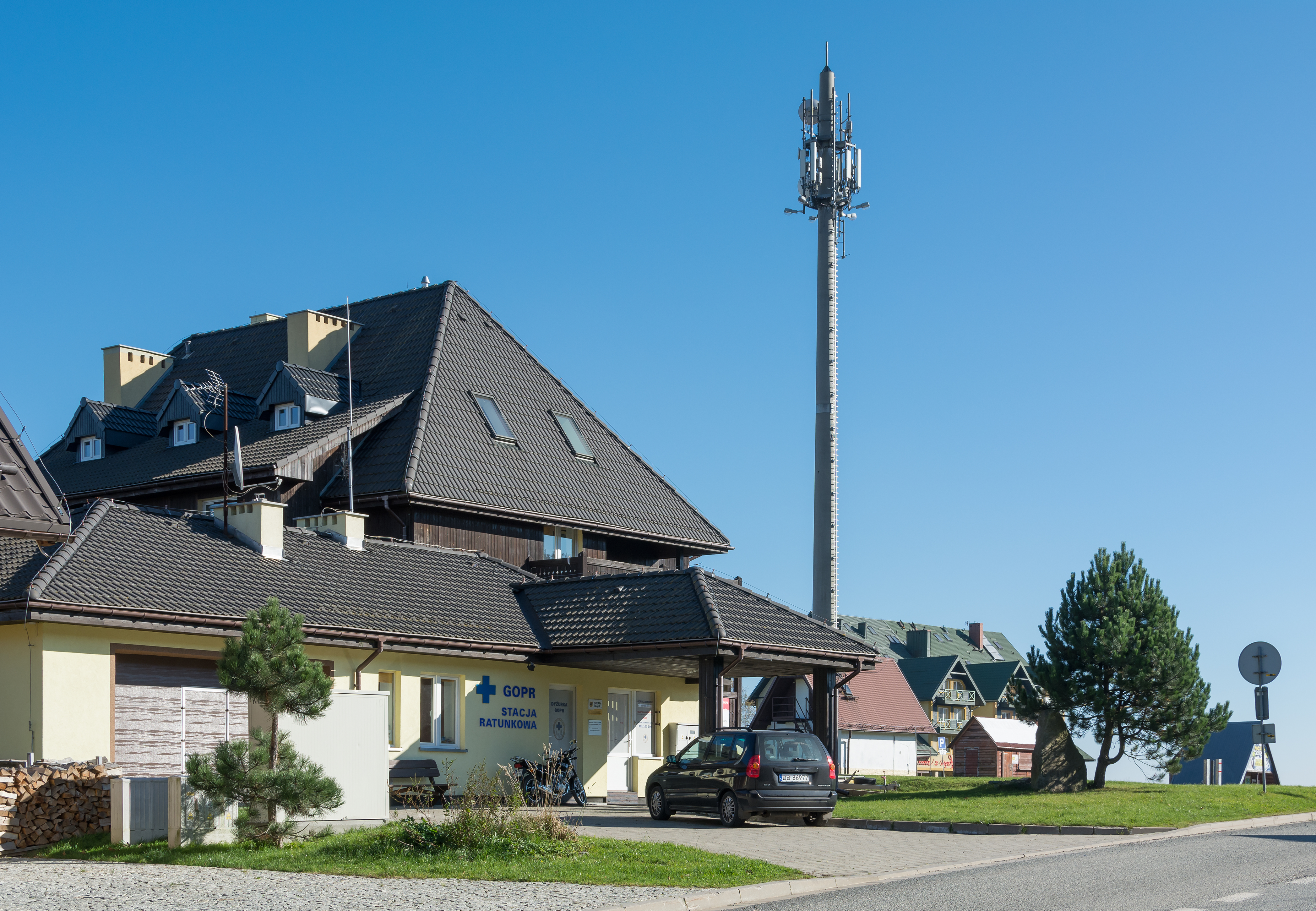 Mobile transmitter and GOPR station in Zieleniec